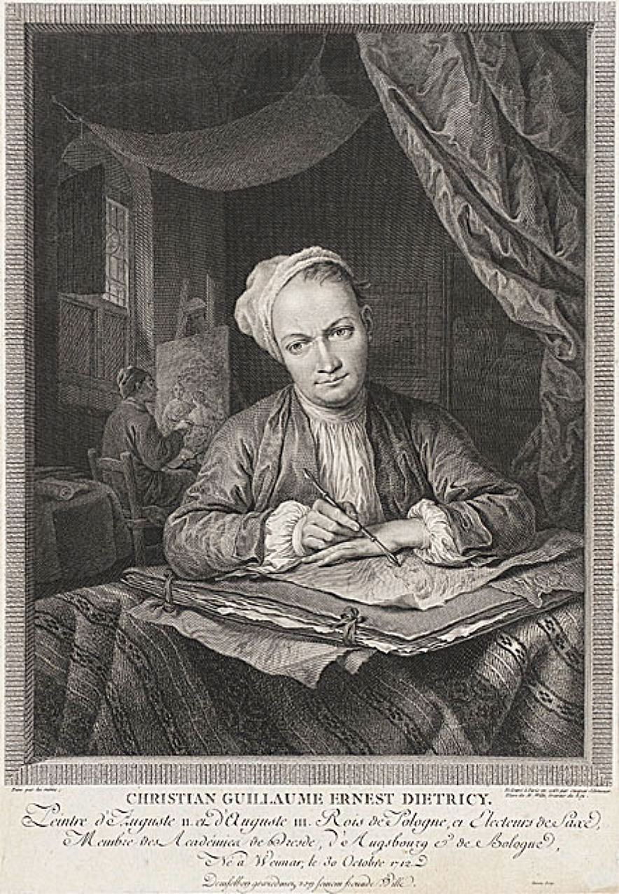 Portrait of Christian Guillaume Ernest Dietricy